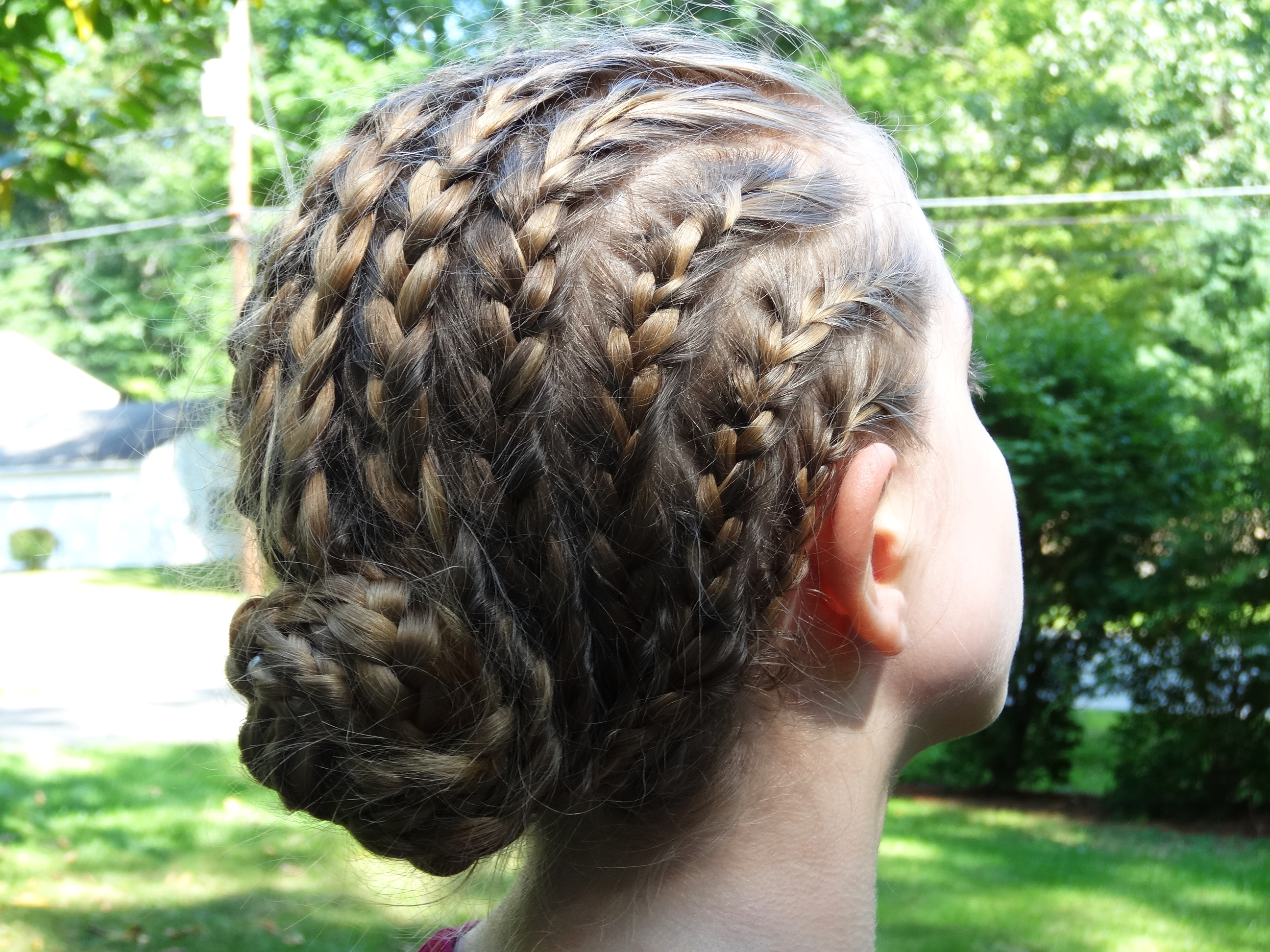 Low braided bun. Cornrows into braided bun; this is how it is done: braid cornrows from forehead to the nape of the neck, braid the small braids into 1 super braid, fasten the tip with an elastic, roll the super braid up with the brushes tucked under, fasten with bobby pins